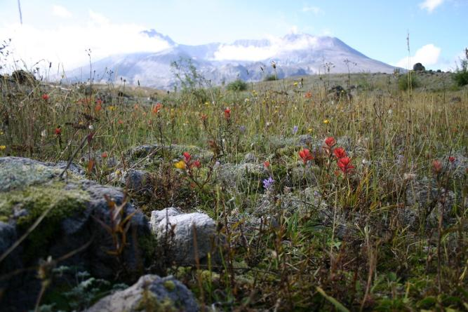 Wildflowers recover Pumice Plain, an area covered by volcanic ash at the eruption of Mount St. Helens in 1980